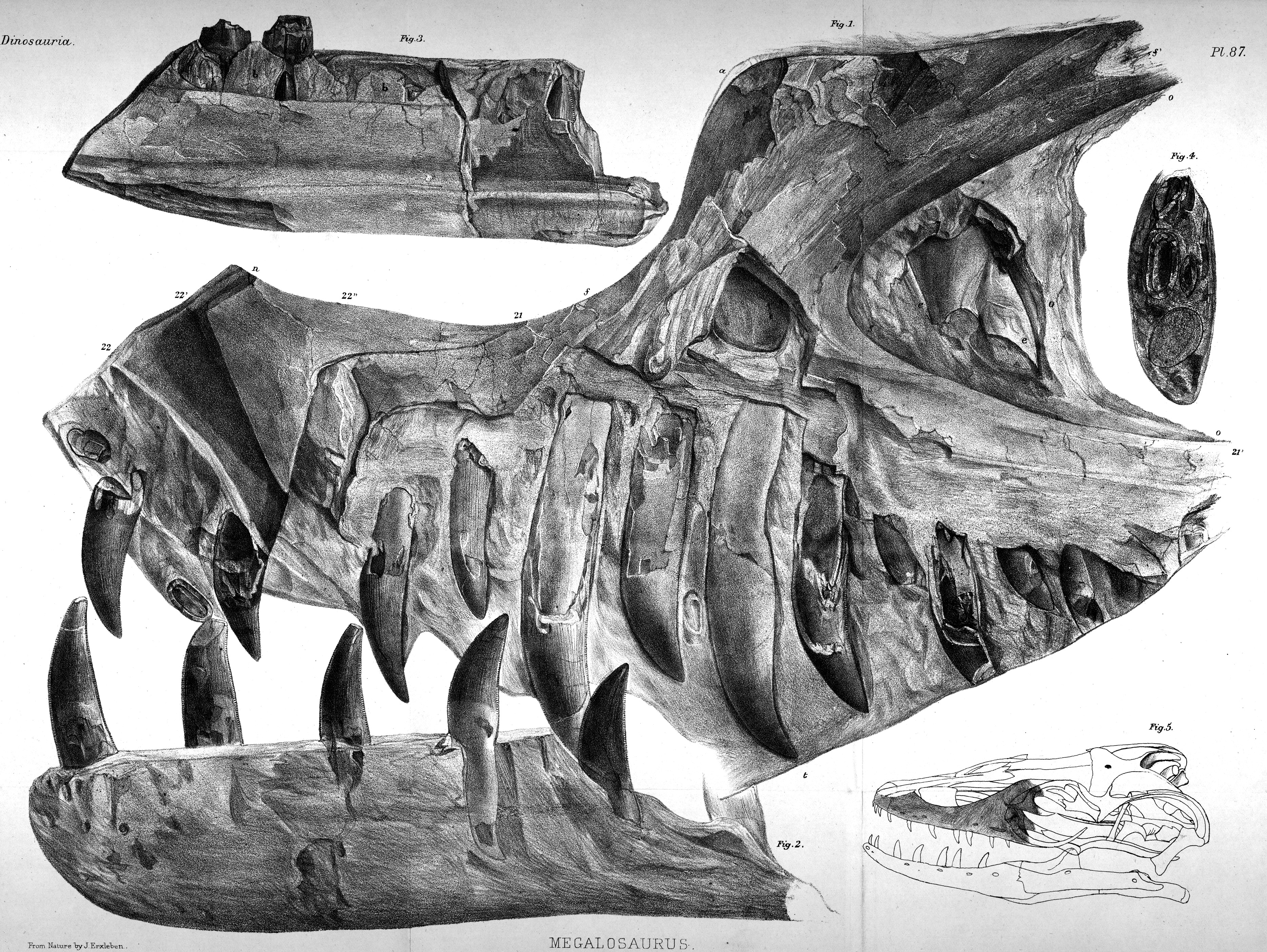 Duriavenator hesperis (Megalosaurus Bucklandi). Fig. 1. Facial and orbital part of the skull. Fig. 2. Fore part of the lower jaw of the same skull. Fig. 3. Inner side of part of the same jaw. Fig. 4. Vertical section of the jaw, with germs of successional teeth. Fig. 5. Skull of the great Monitor lizard (Varanus niloticus); the tinted part corresponds to the fossil. (All the figures are of the natural size.) From the Inferior Oolite, Sherborne, Dorset.